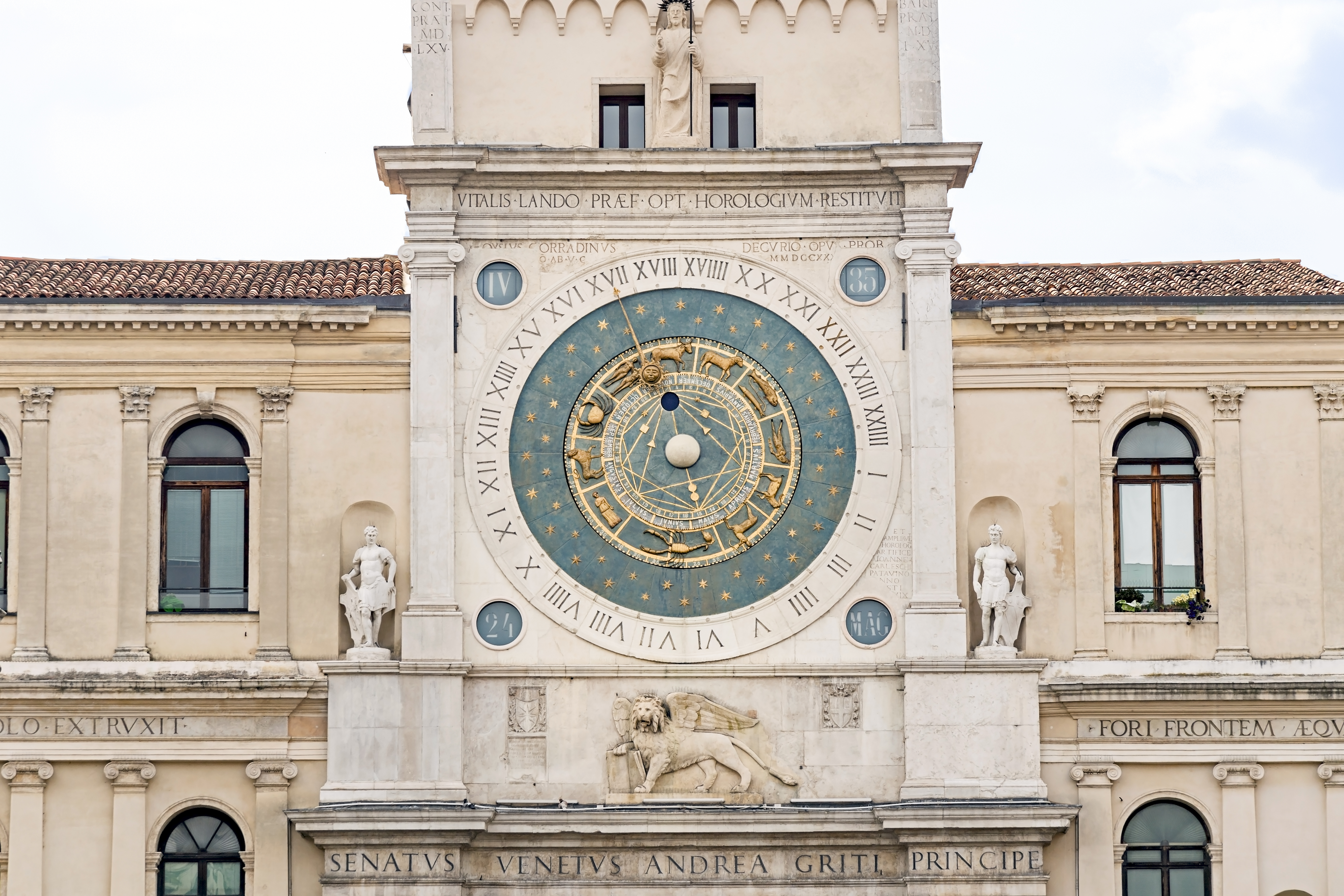 The famous astronomical clock of 1428 by Novello Dondi, the success was such that the family name became: Dondi dell'Orologio - Piazza del signore in Padua